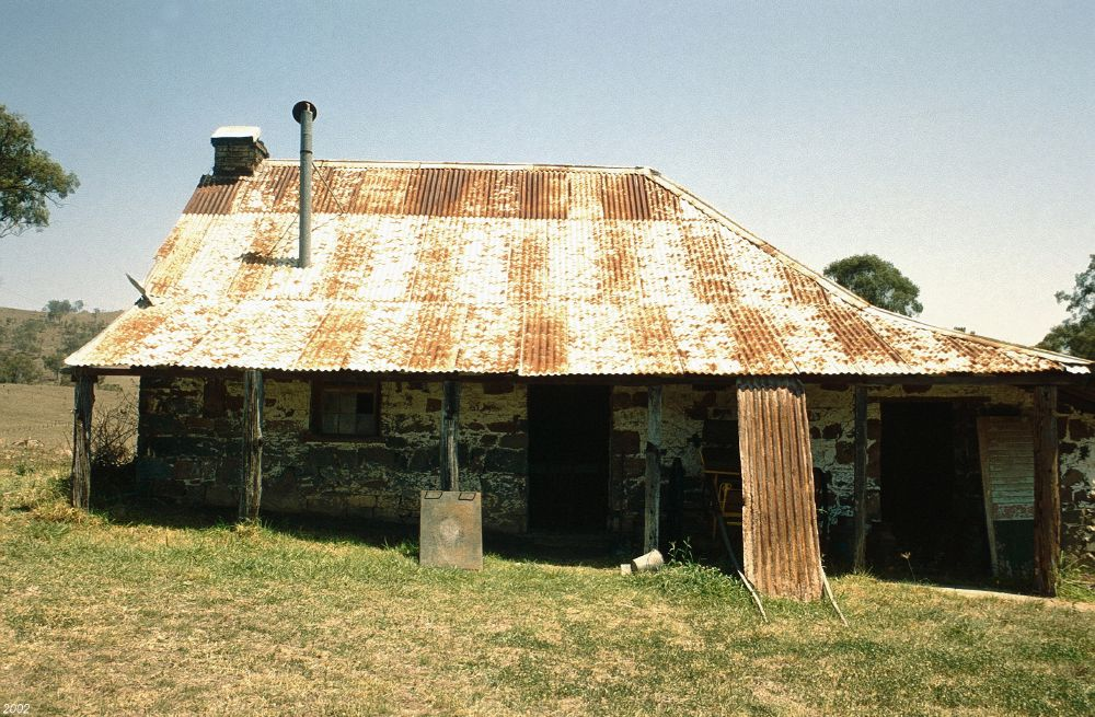 Stonehouse (2002) - verandahs